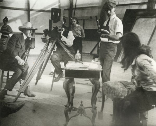 D. W. Griffith, wearing a straw hat, directs Miriam Cooper in Intolerance (1916). Cameraman Billy Bitzer is obscured by the Pathé camera he is cranking. Behind him actress Dorothy Gish watches the scene. On the right, Bitzer's assistant Karl Brown is keeping script.